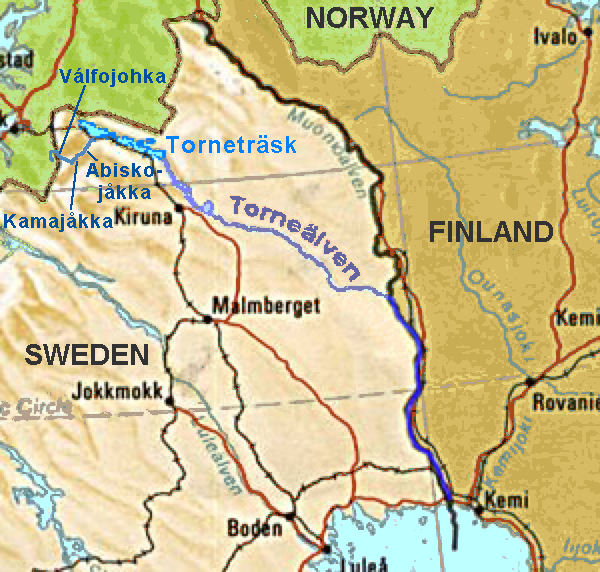 Map of northern Sweden showing location of Torne River From CIA mapping (full map is at )